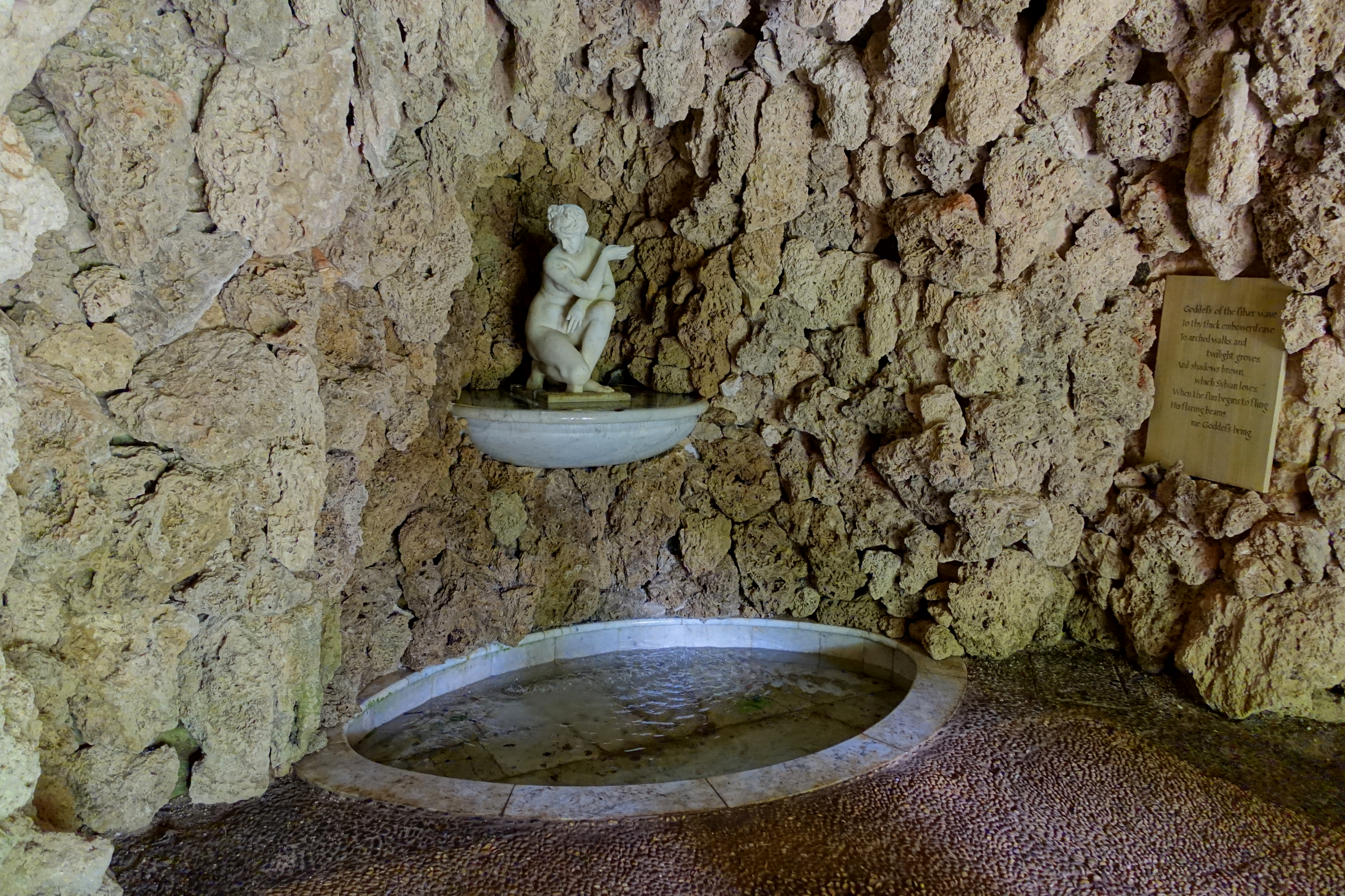 Crouching Venus - Grotto, Stowe - Buckinghamshire, England.